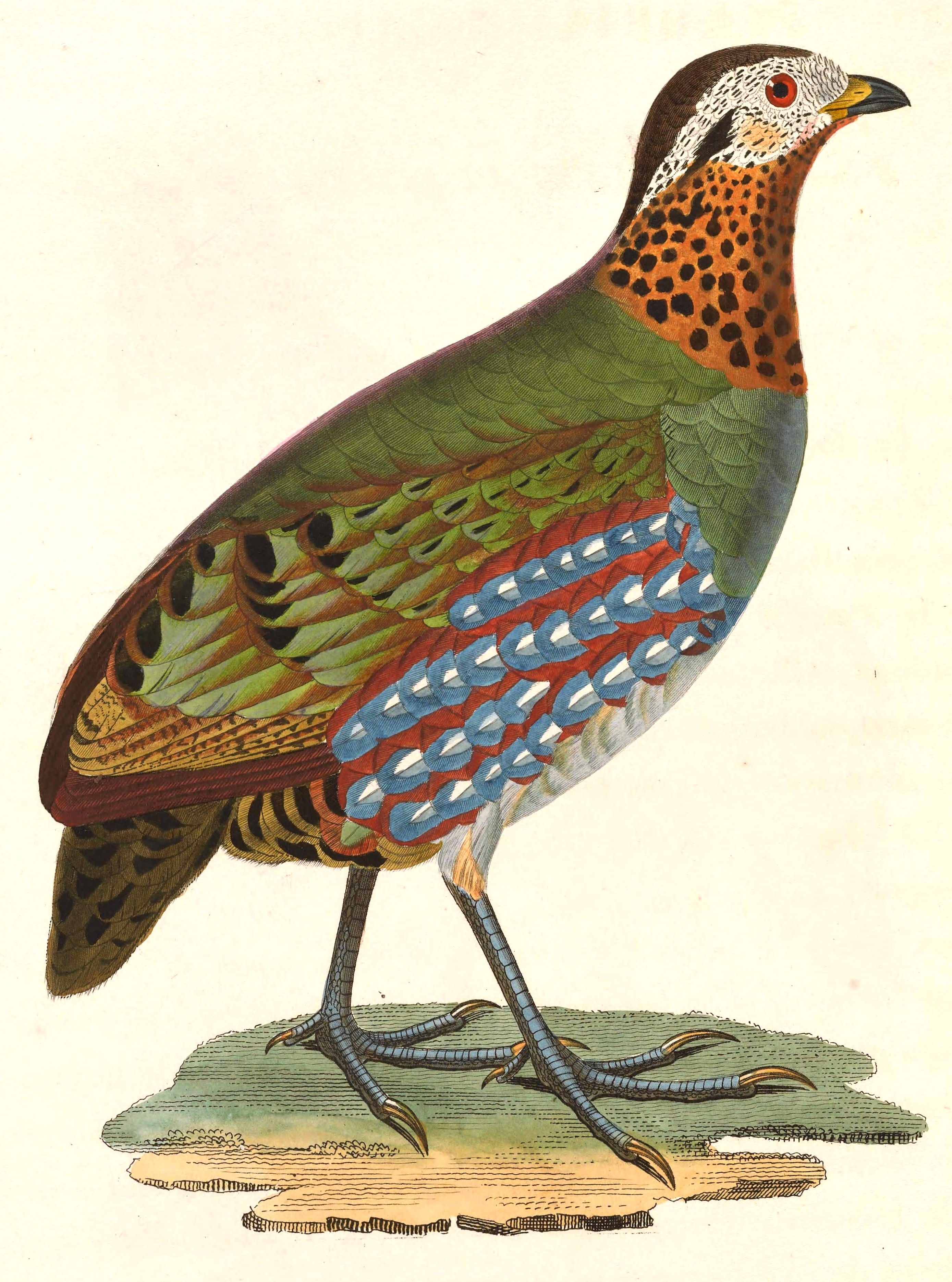 « Perdix megapodia » = Arborophila torqueola torqueola (Subspecies of Hill Partridge) - female